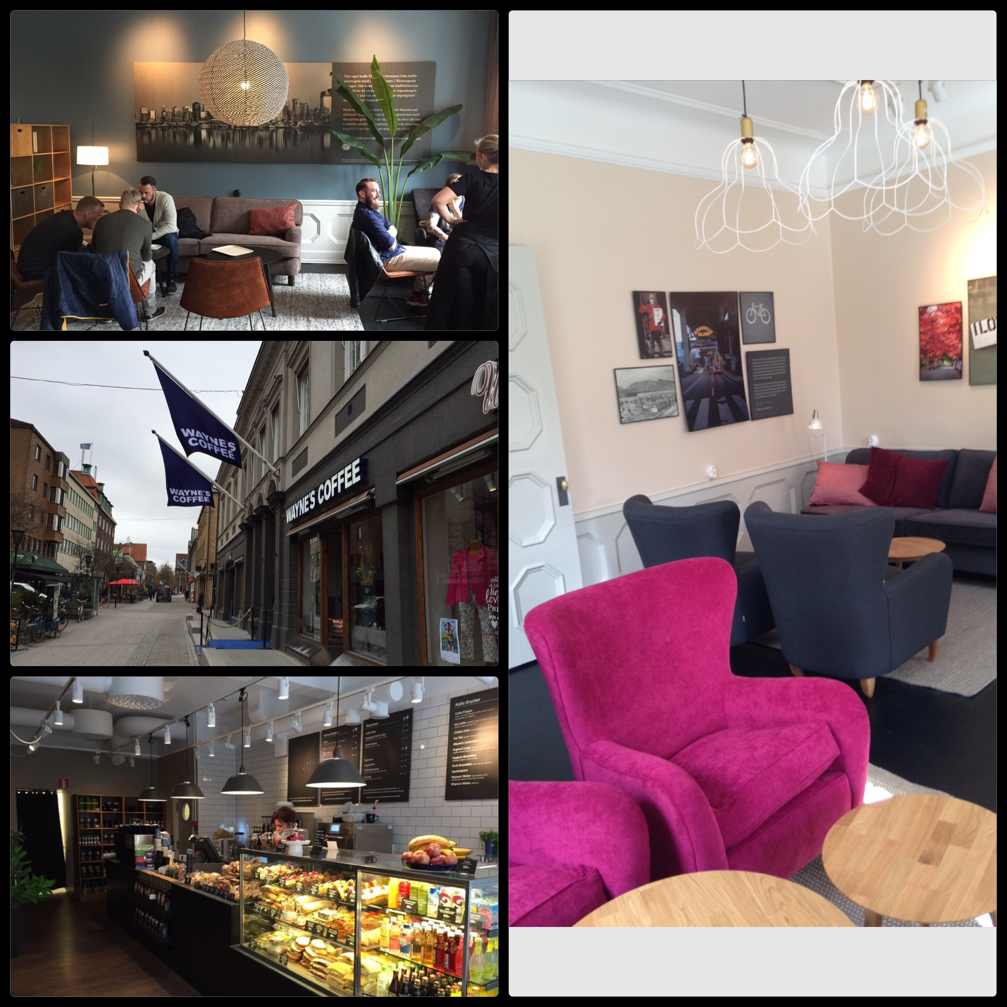 Wayne's Coffee in Halmstad.